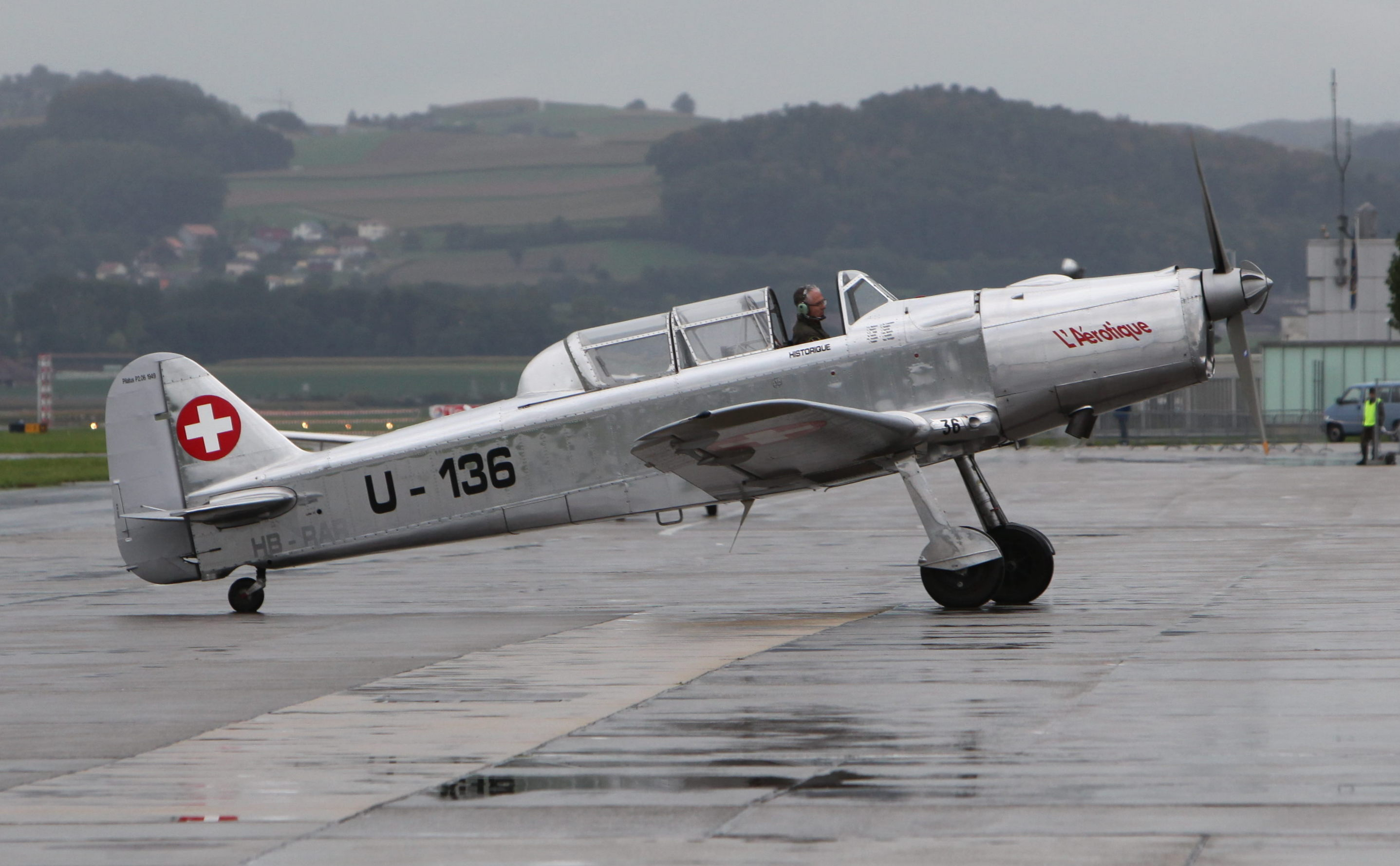 Pilatus P-2 of the Swiss Air Force demonstrating at Payerne Air base open day, 25 September 2010.